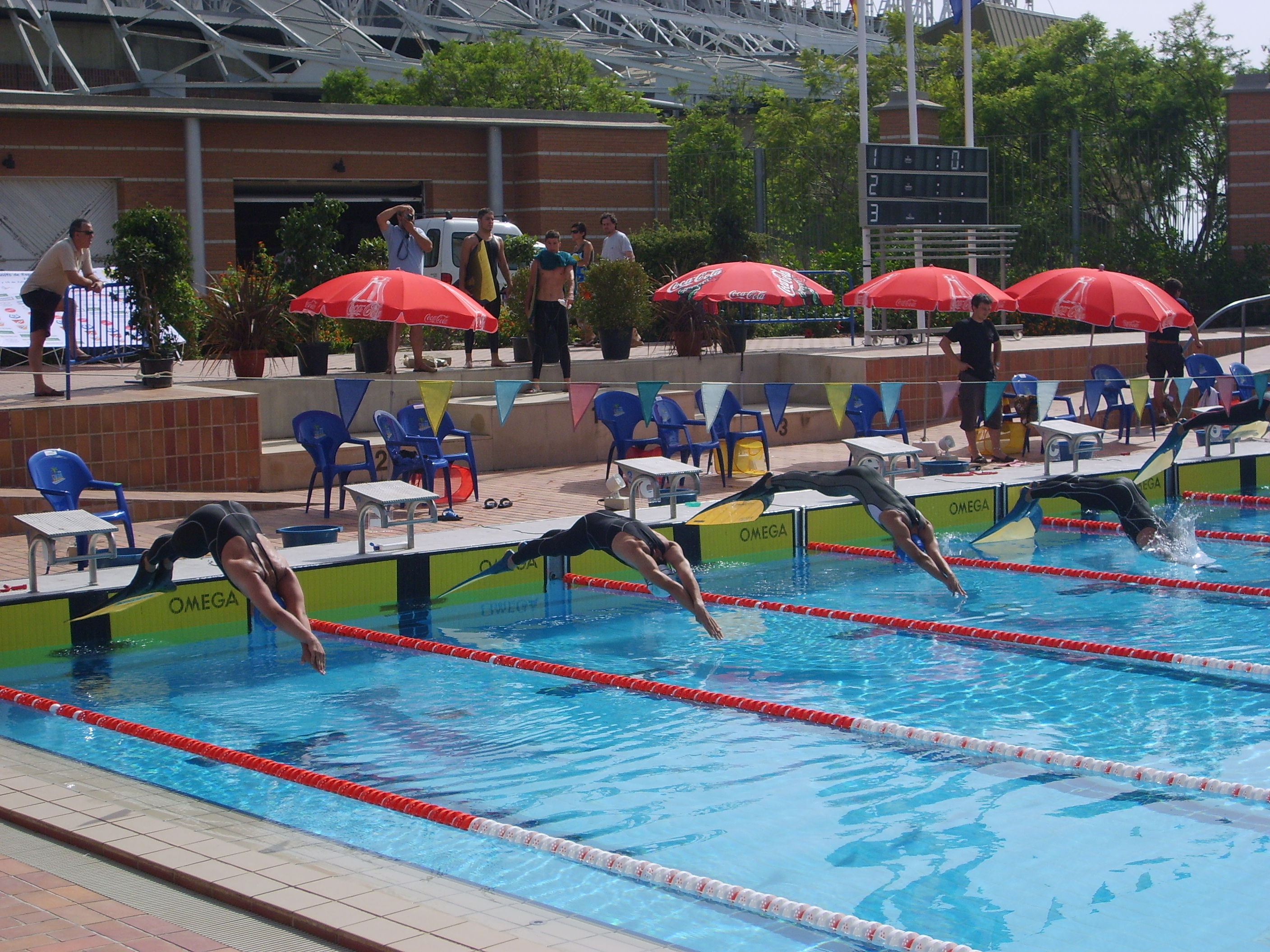 The goal of jumping away from the springboard, it is encouraged as soon as possible to acquire a faster start in the first few meters of the test (in this case, the pattern is observed, is "apnea".